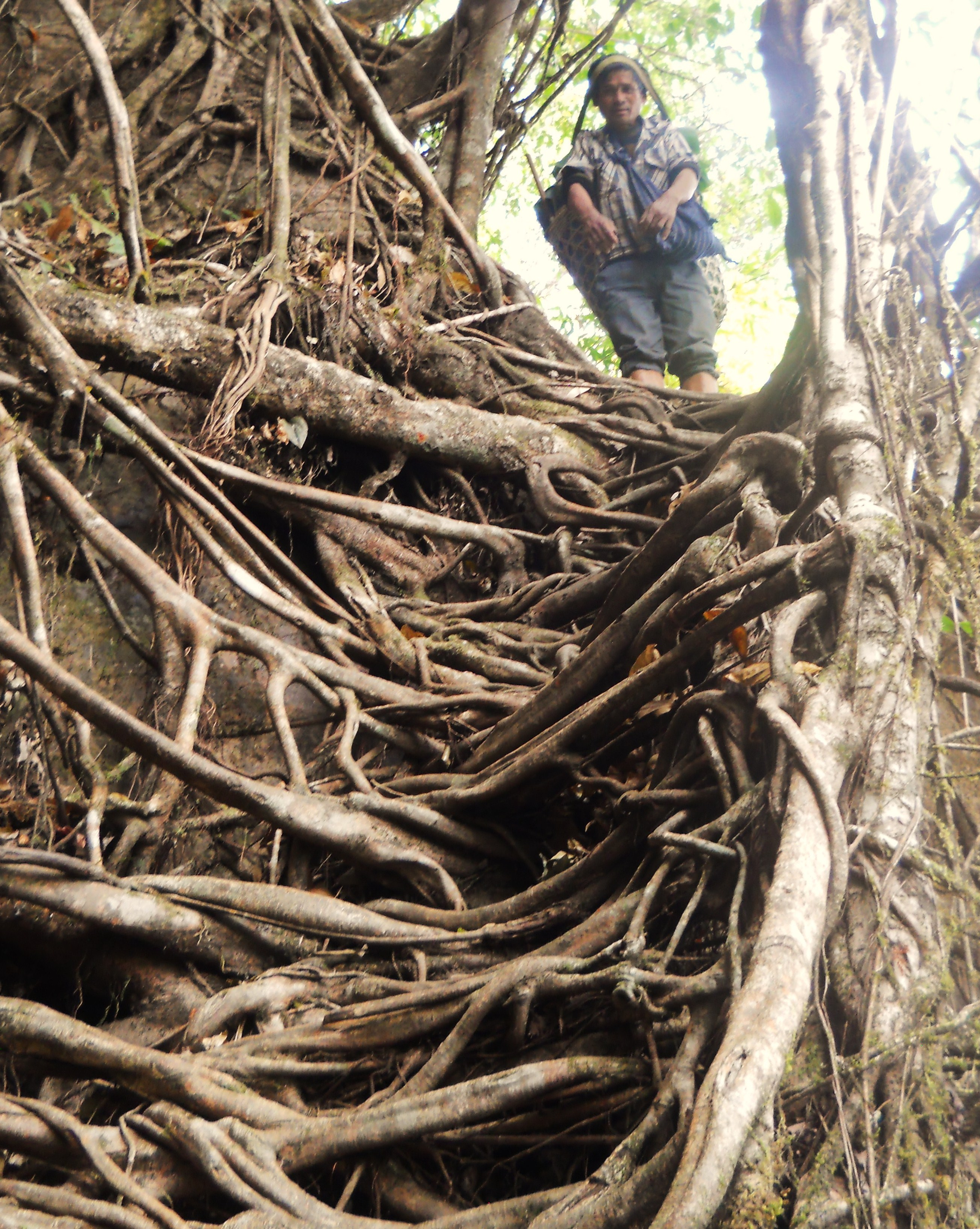 Jingkieng Jri